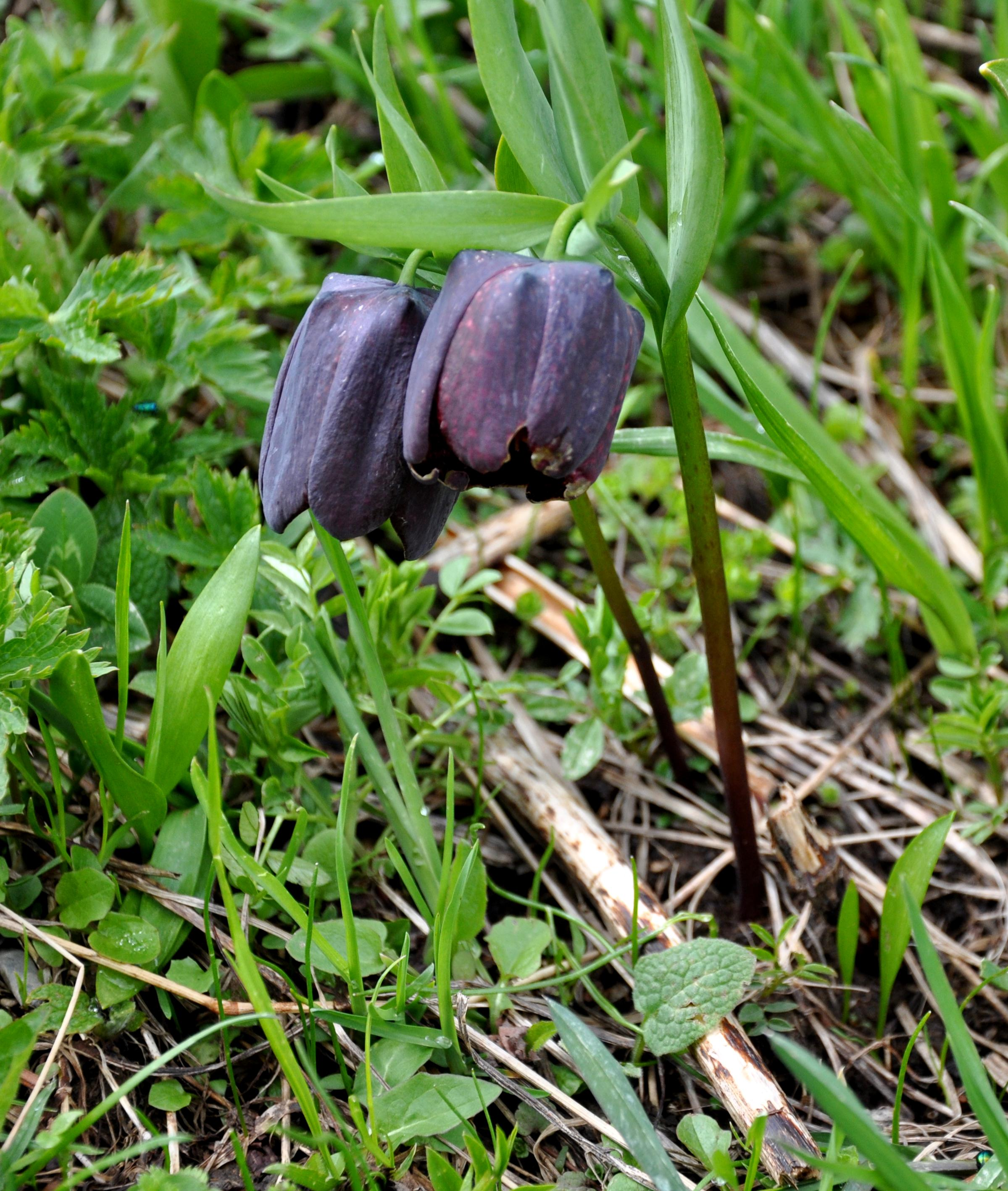 Taken in Skhmeri